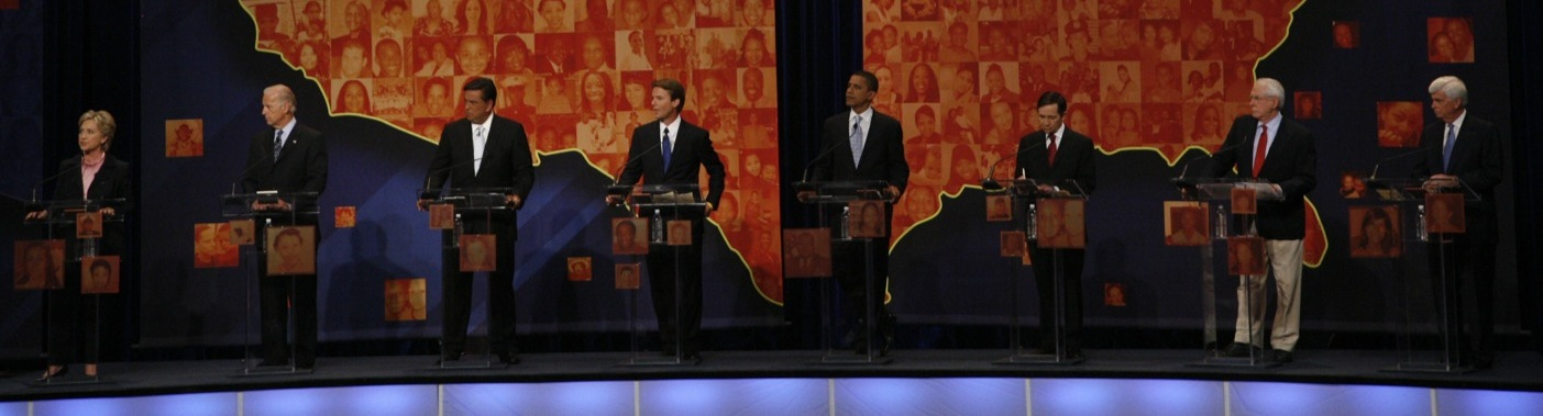 Photo by Rachel Feierman